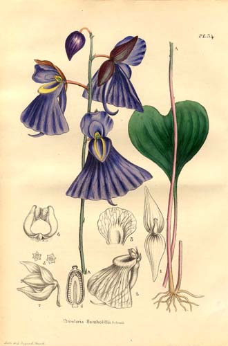 Lentibulariaceae - Utricularia humboldtii. From: Annales de la Société royale d'Agriculture et de Botanique de Gand, Journal d'horticulture by Charles Morren (ed.). Gent, Local de la Société (Casino), etc., 1845, volume 1 (plate 34). Hand-coloured lithograph (sheet 168 x 257 mm). Text enclosed. Belgian horticultural journal, published from 1845-1849 by the Royal Agricultural and Botanical Society of Gent, organizer of the famous flower shows in Gent, Gentse Floraliën, since 1809. Started and edited by Charles Morren at the same time as the more successful competitor Flore des serres et des jardins de l’Europe of the nurseryman Louis van Houtte. Great flower books p. 84; Nissen BBI 2212. Copyright expired due to age of image Originally uploaded to en.wikipedia.